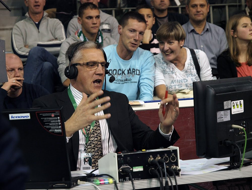 KK Union Olimpija vs Maccabi Tel Aviv in Hala Tivoli, Euroleague 2009/10